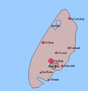 Overview of villages on Texel